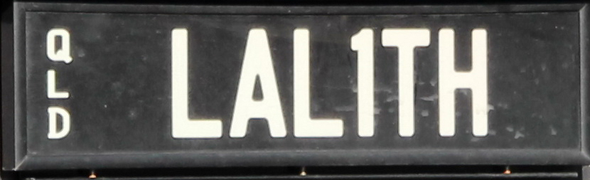 Queensland personalised registration plate seen on a Toyota LandCruiser J200 GXL